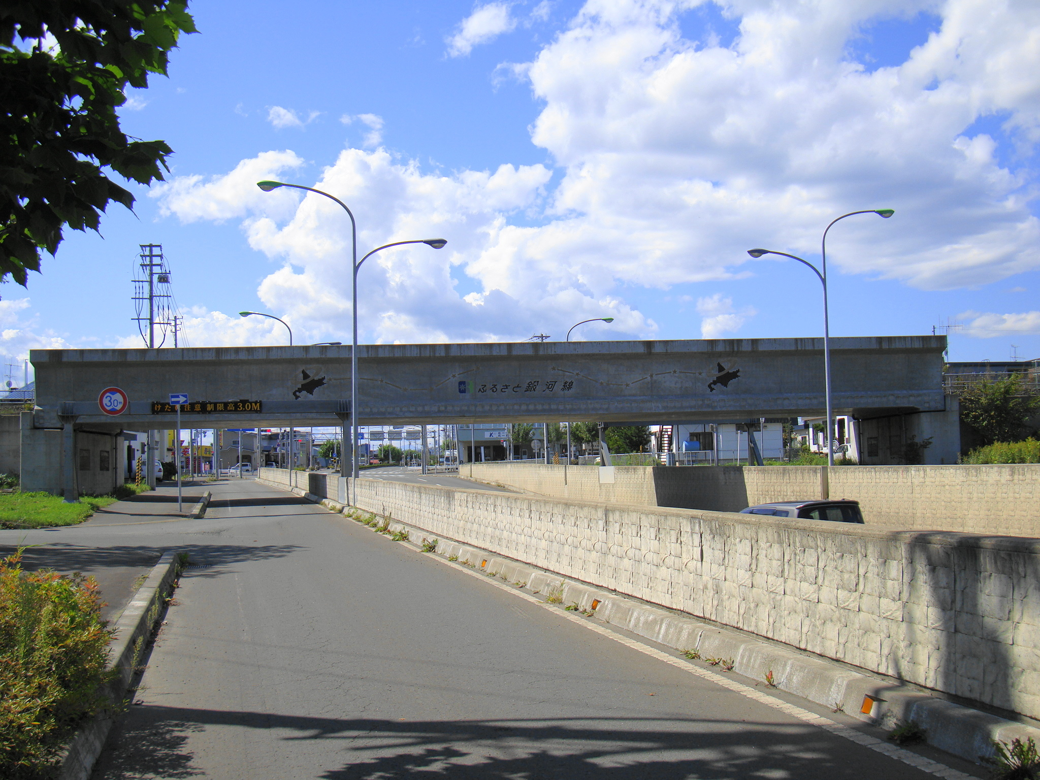 Disused railway of Hokkaidō Chihokukōgen Railway